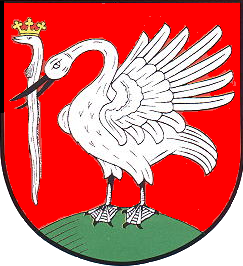 Coat of arms of the municipality Hedwigenkoog in Schleswig-Holstein, Germany.